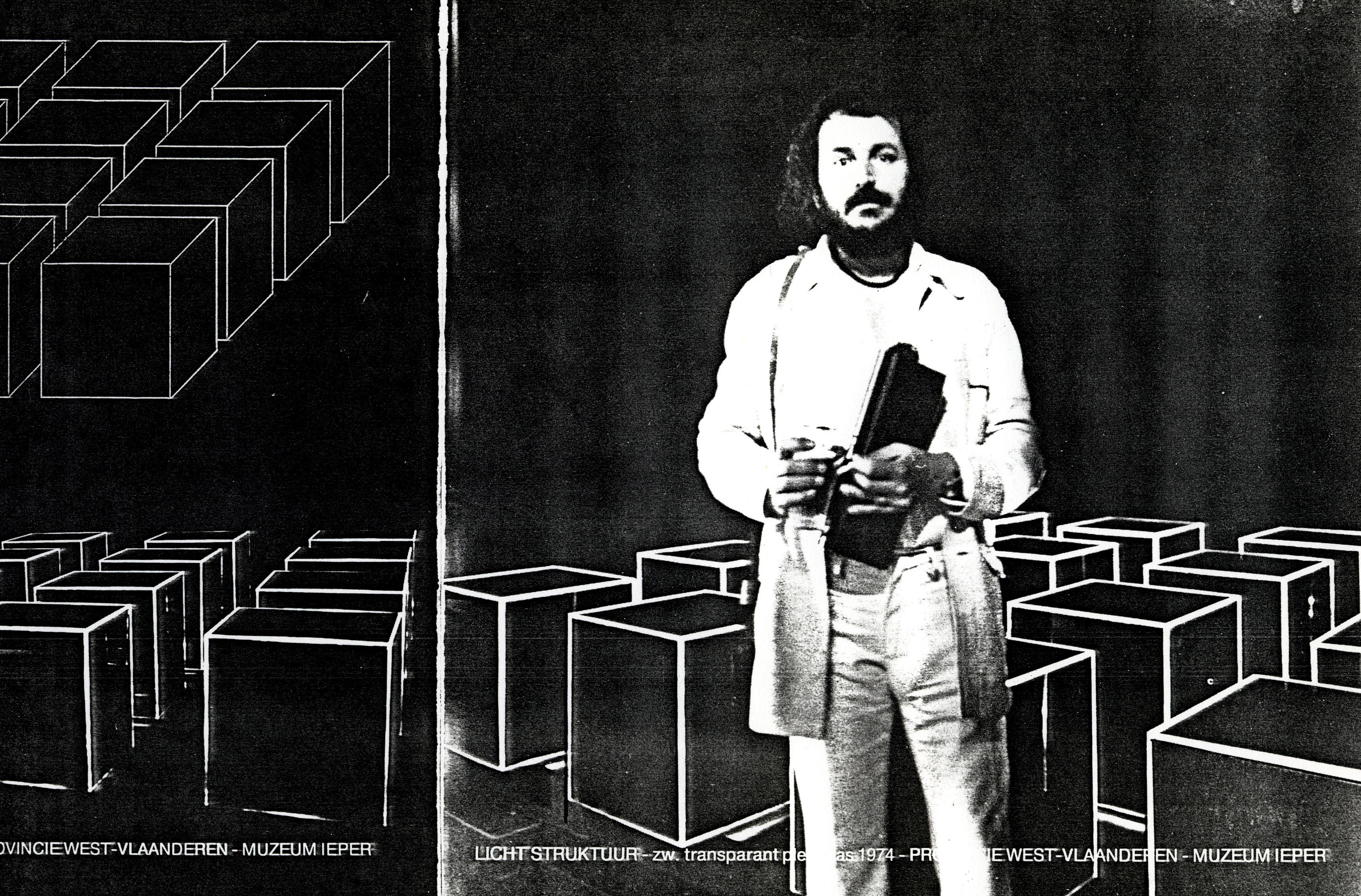 Mark Verstockt - Licht Struktuur